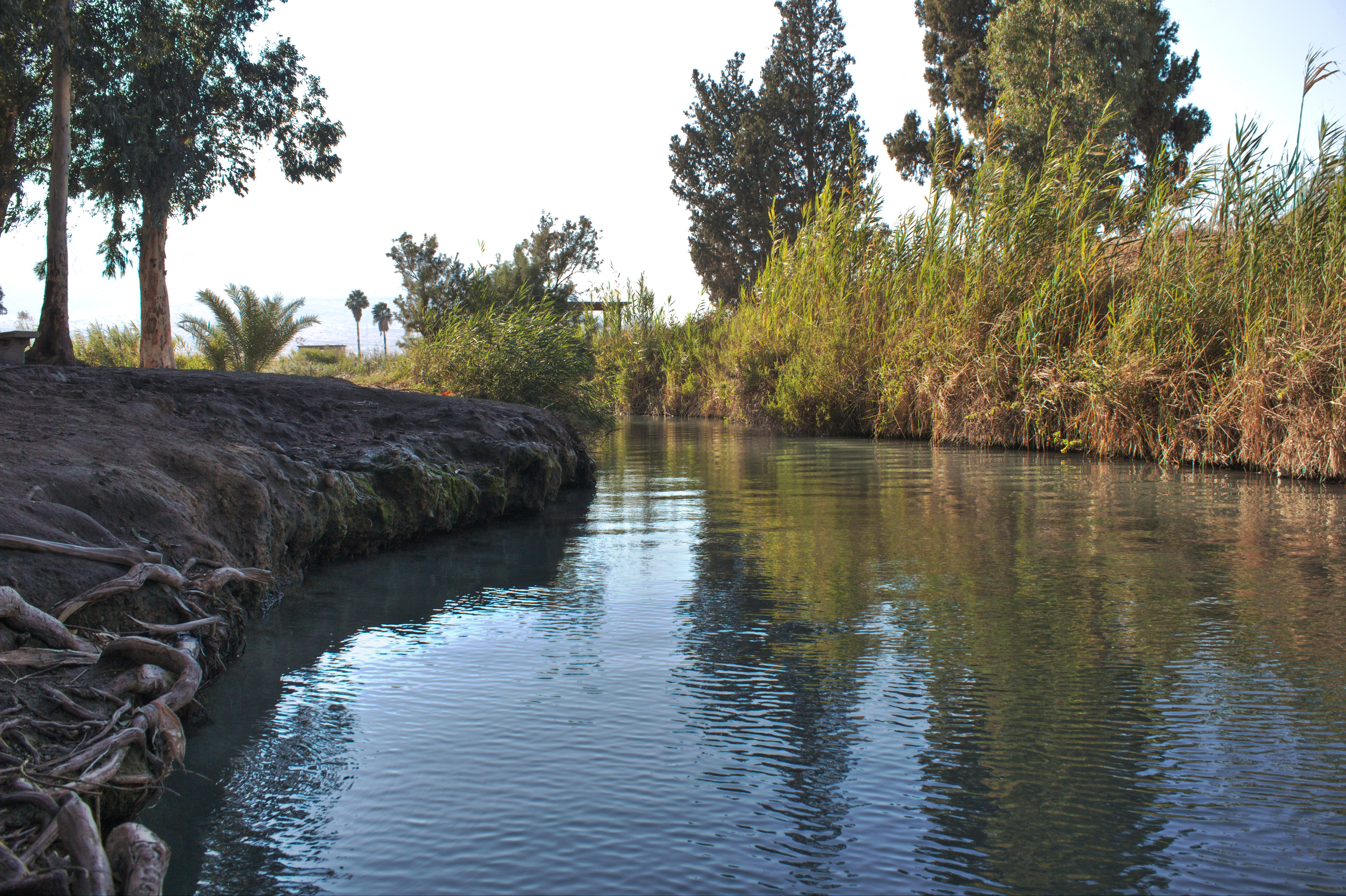 Nahal Kibutsim, Valley of Springs, Israel